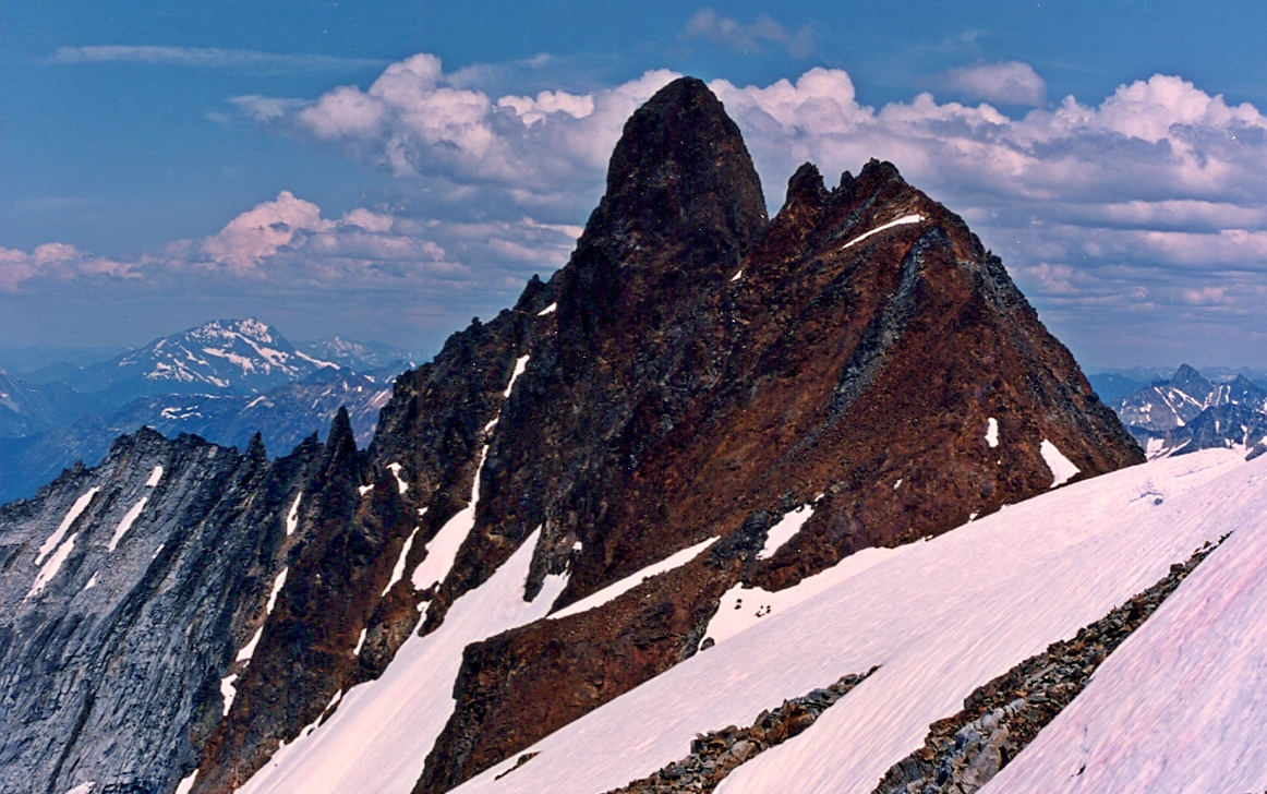 Boston Peak seen from Sahale Peak. North Cascades National Park in 1991